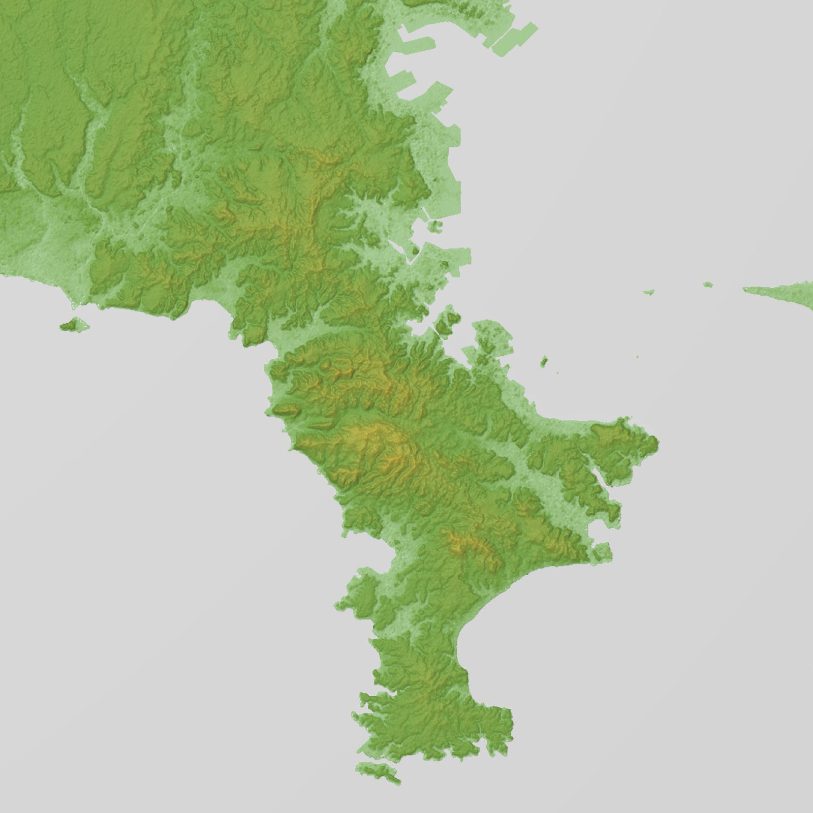 Miura Peninsula in Kanagawa Prefecture, Honshu, Japan.